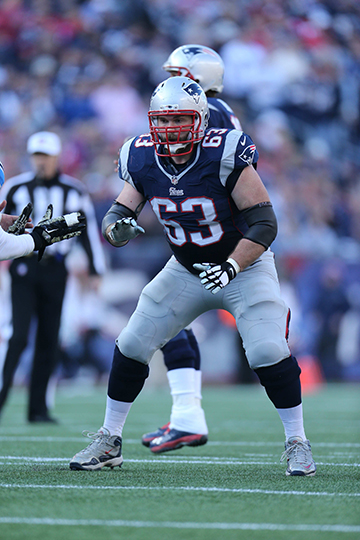 John Connolly, a player on the National Football League.